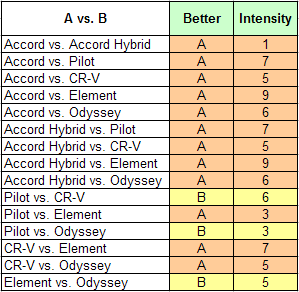 Part of a series of images to illustrate an article on the Analytic Hierarchy Process